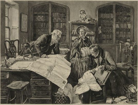 Title: Right of way Physical description: 1 print. Notes: No. 13904 copy B; This record contains unverified data from PGA shelflist card.; Associated name on shelflist card: Dobie, James.